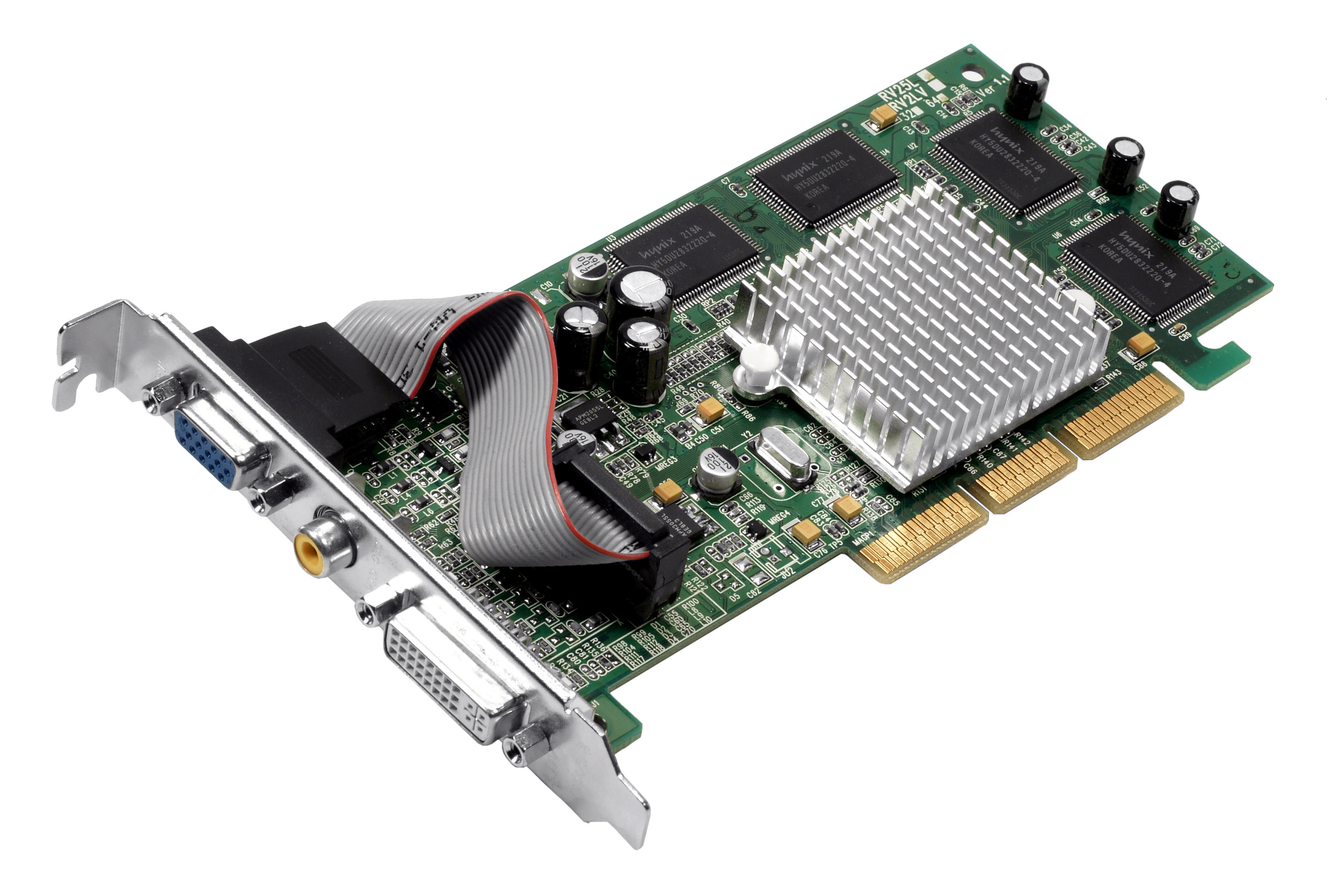 A Powercolor Radeon 9000 AGP video card with 64 MiB DDR-SGRAM. It's equipped with a D-Sub Analog monitor connector, a Cinch video connector and a Dual-Link DVI-I digital/analog monitor connector (from left to right).